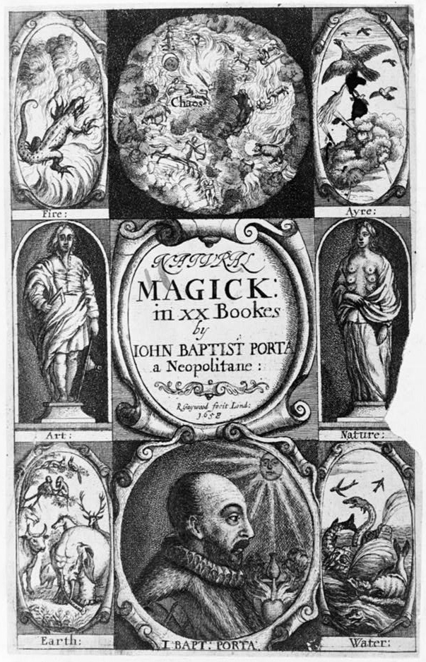 Title page and frontispiece to Natural magick... wherein are set forth all the riches and delights of the natural sciences by Giambattista della Porta (1535-1615) with a portrait of the author